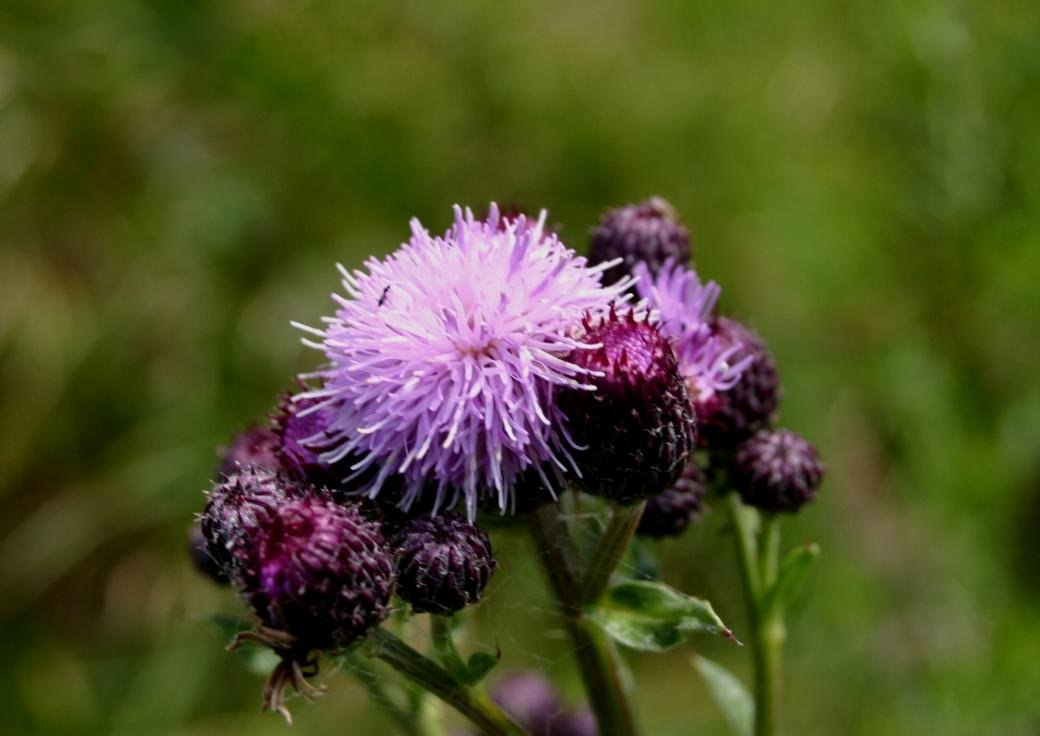 Cirsium arvense: Flower heads.